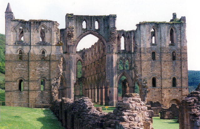 Rievaulx Abbey. Built in the 12th century by Cistercian Monks from France this is a place of utmost tranquillity